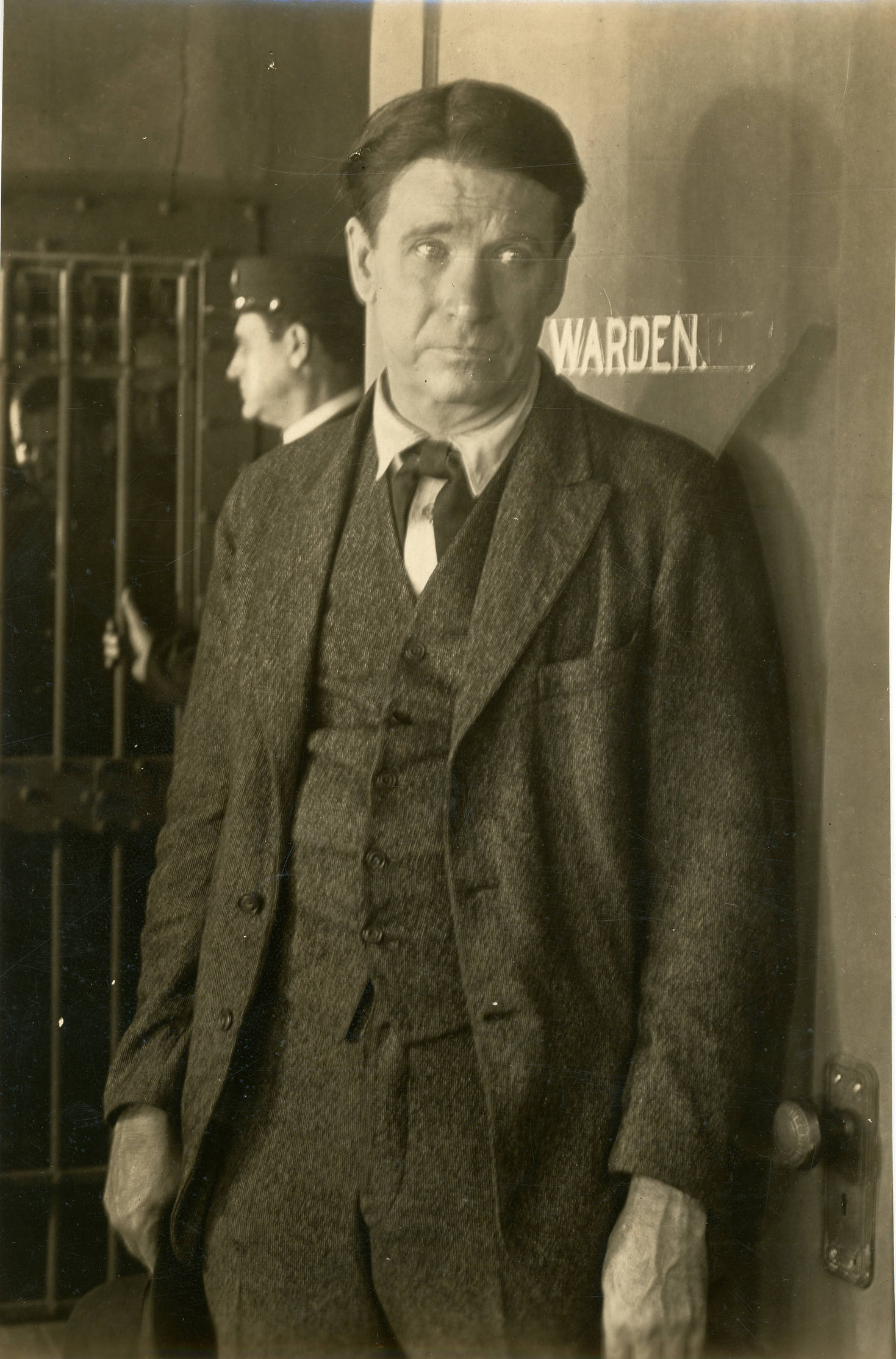 Silent film actor Romaine Fielding, from the drama film The Man Worth While (1921). Subjects: actresses